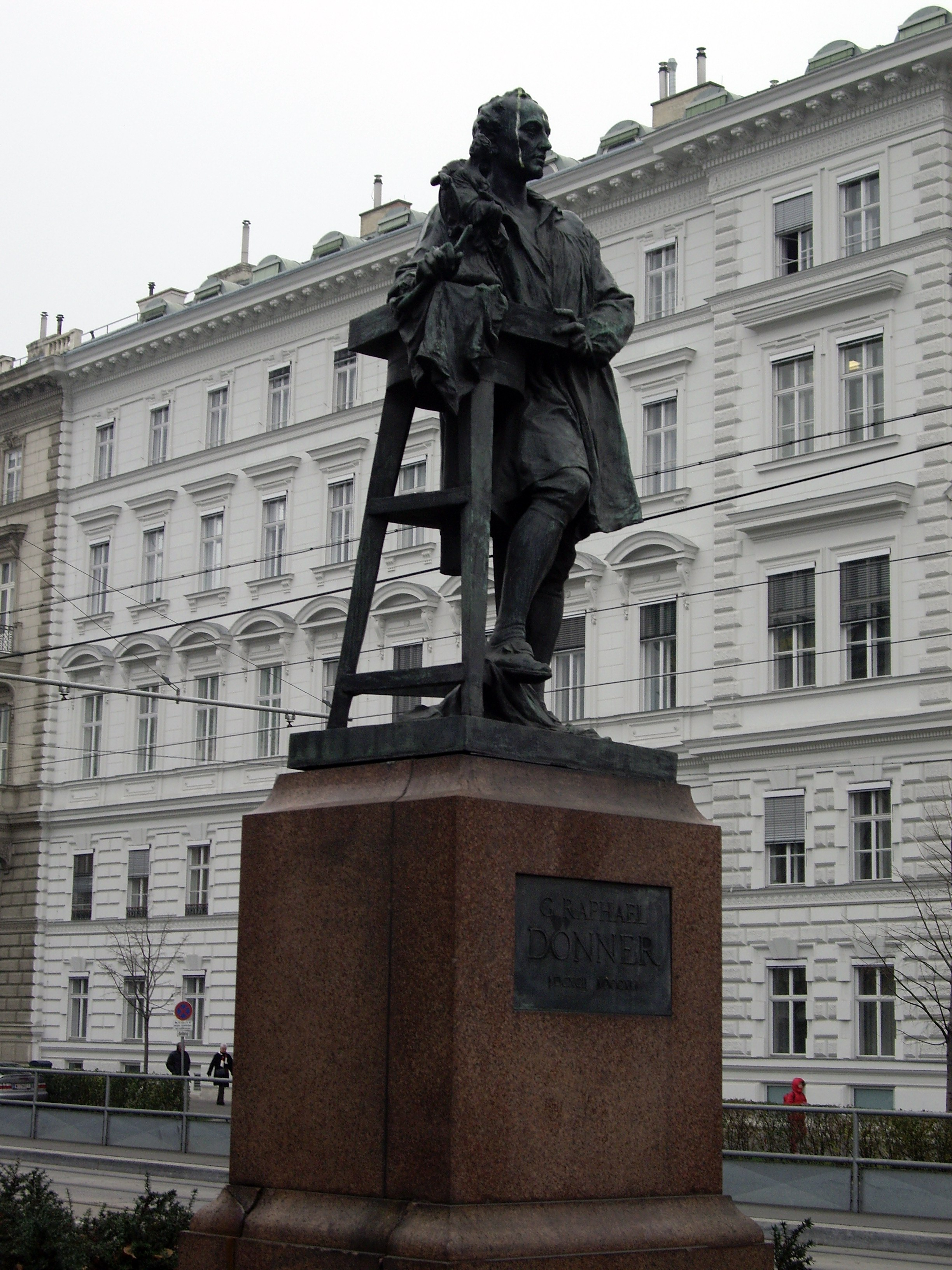 Monument to Georg Raphael Donner in Vienna